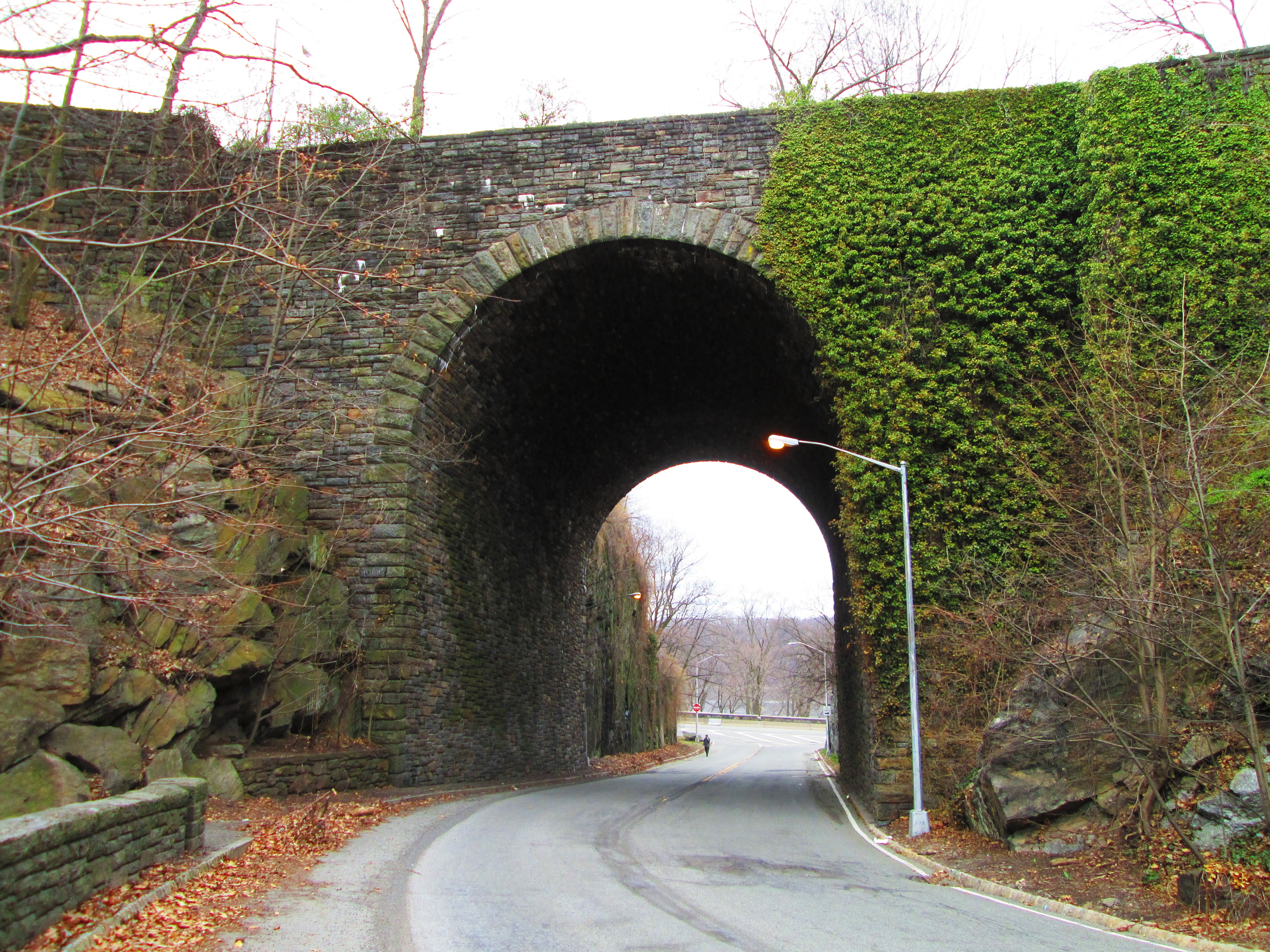 The Margaret Corbin Drive Arch in Fort Tryon Park, Manhattan, New York City. The roadway runs across the top of the arch, along with a walking path, and then curves around and passes through the arch to the north-bound side of the Henry Hudson Parkway. This view is from the east side of the arch, looking west at the Parkway and the Hudson River. It was taken from the Drive.